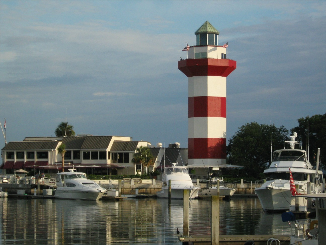 Harbor of Hilton Head Island, South Carolina, United States.